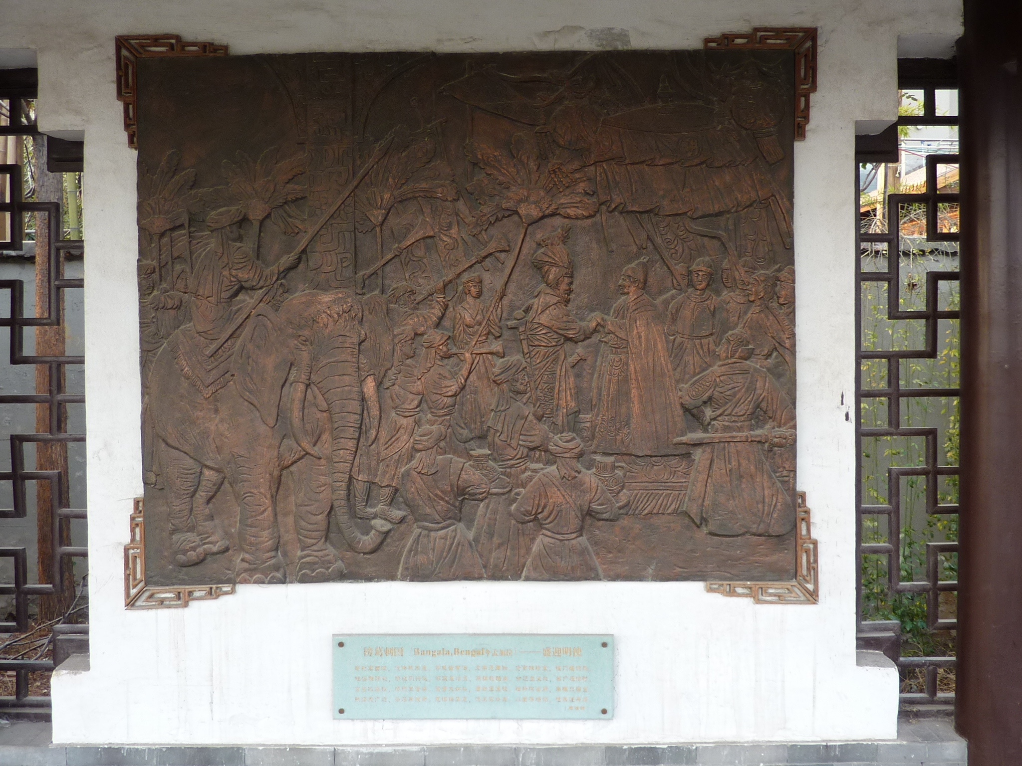 Fragments of the relief running along the northern wall of the Treasure Boat Shipyard Park, showing the route of Zheng He's voyages and various events along it.